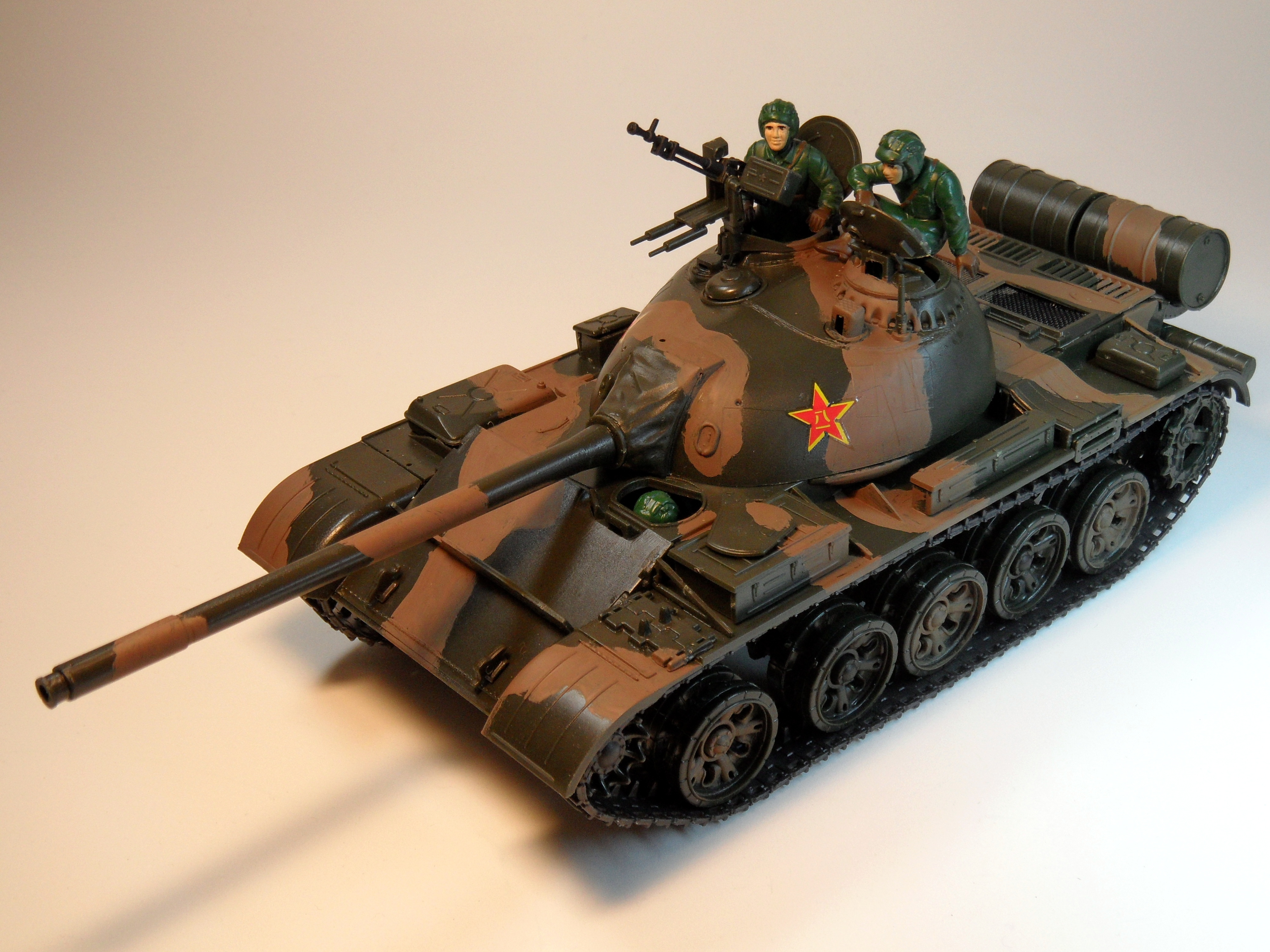 More pictures of My Toy Museum's at Flickr. Most of those toys do still have copyrights so i can't publish them here! Quick Work For My Five Year Old Boy 1 - 7 Aug 11